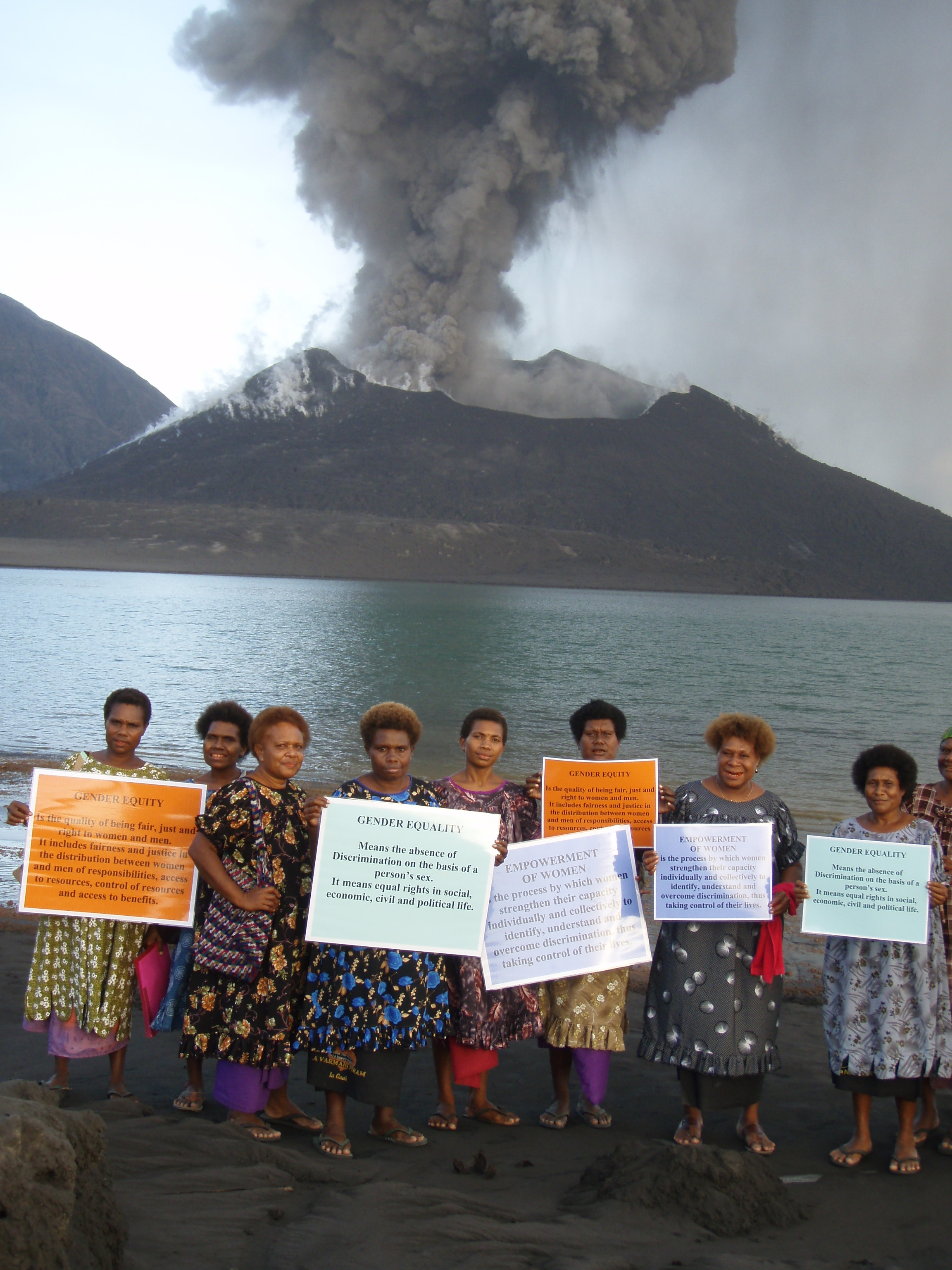 A regional campaign before an election to encourage women into politics, Tuvuvur, PNG.